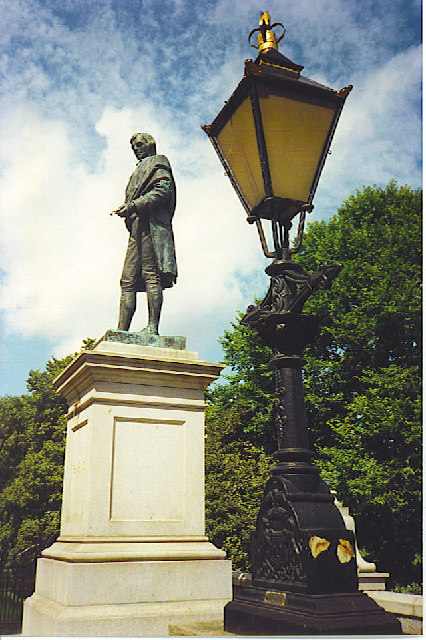 Robert Burns Statue, above the Union Terrace Gardens, Union Terrace, Aberdeen. Statue by Henry Bain-Smith.